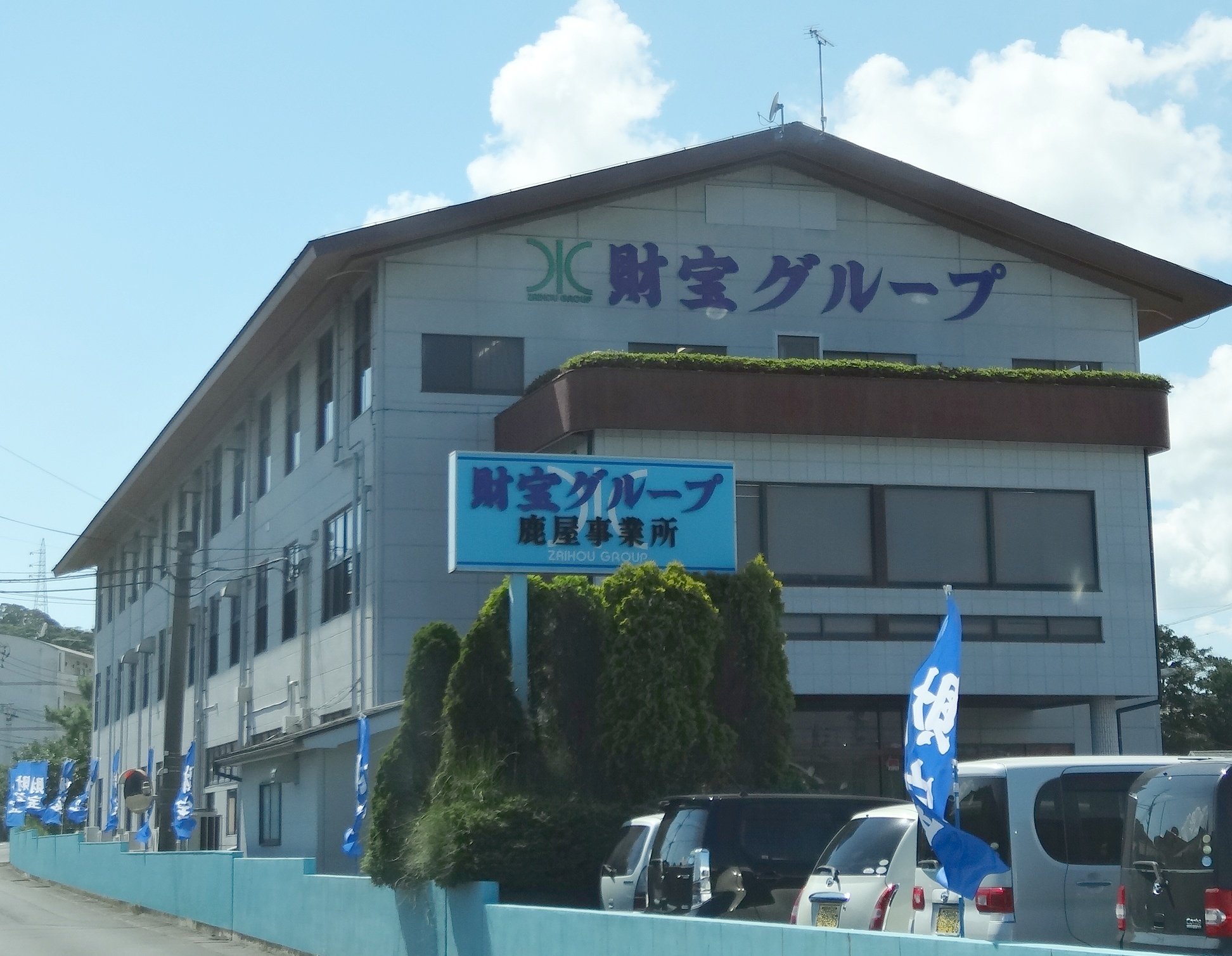 "Zaihou Group" Kanoya Office in Kanoya City, Kagoshima Prefecture, Japan.